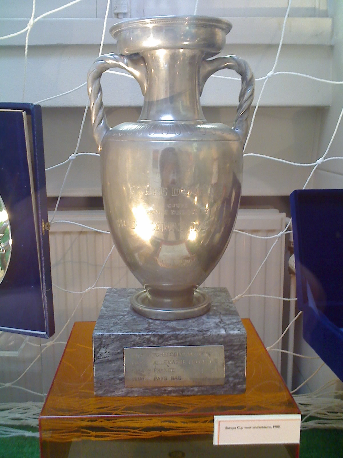 EK 1988 cup, won by the Dutch soccer team. On display in the Amsterdam Oranje Museum